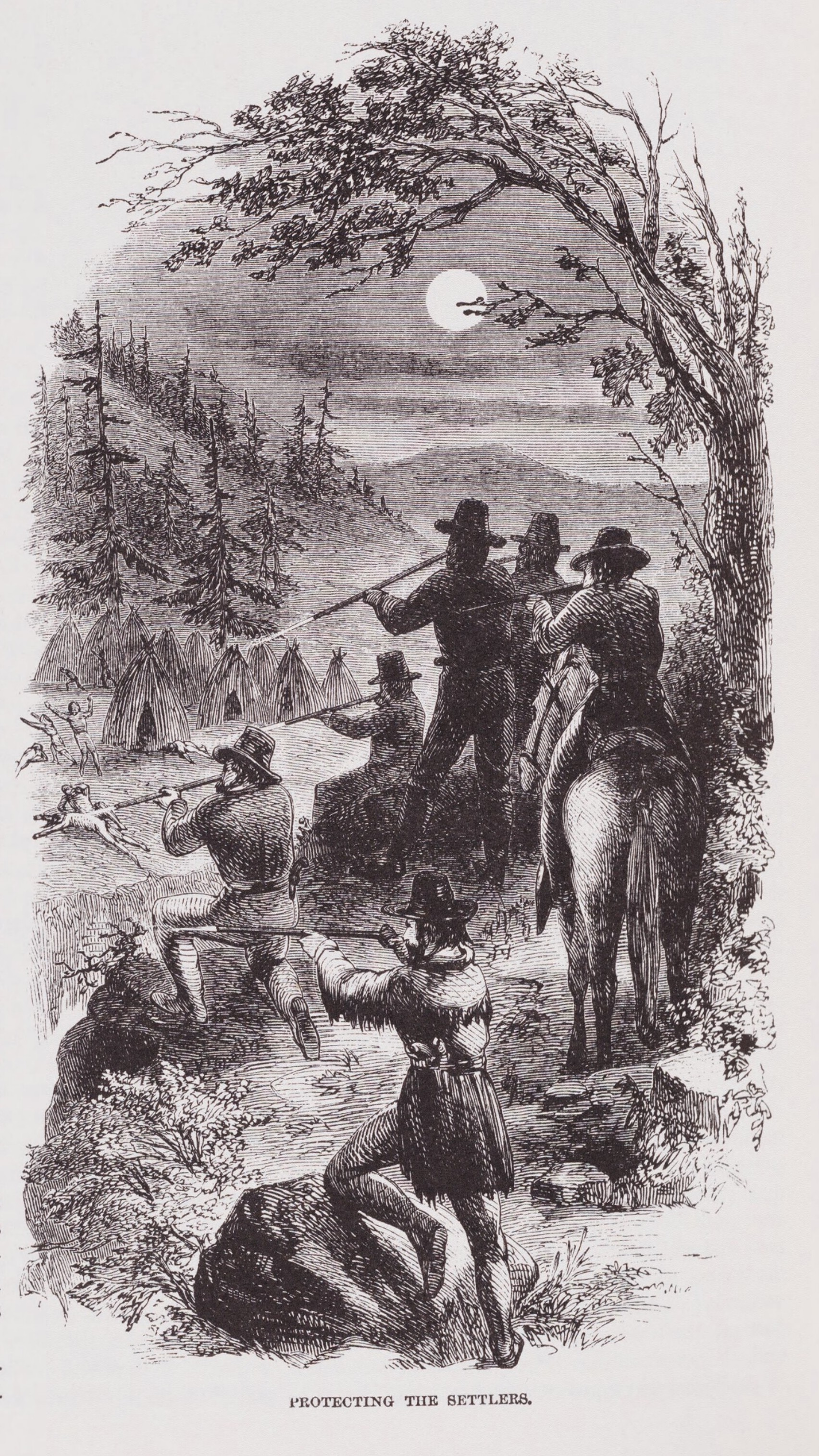 "Protecting The Settlers" Illustration by JR Browne for his work "The Indians Of California" 1864. Portraying a massacre by militia men of an Indian camp.